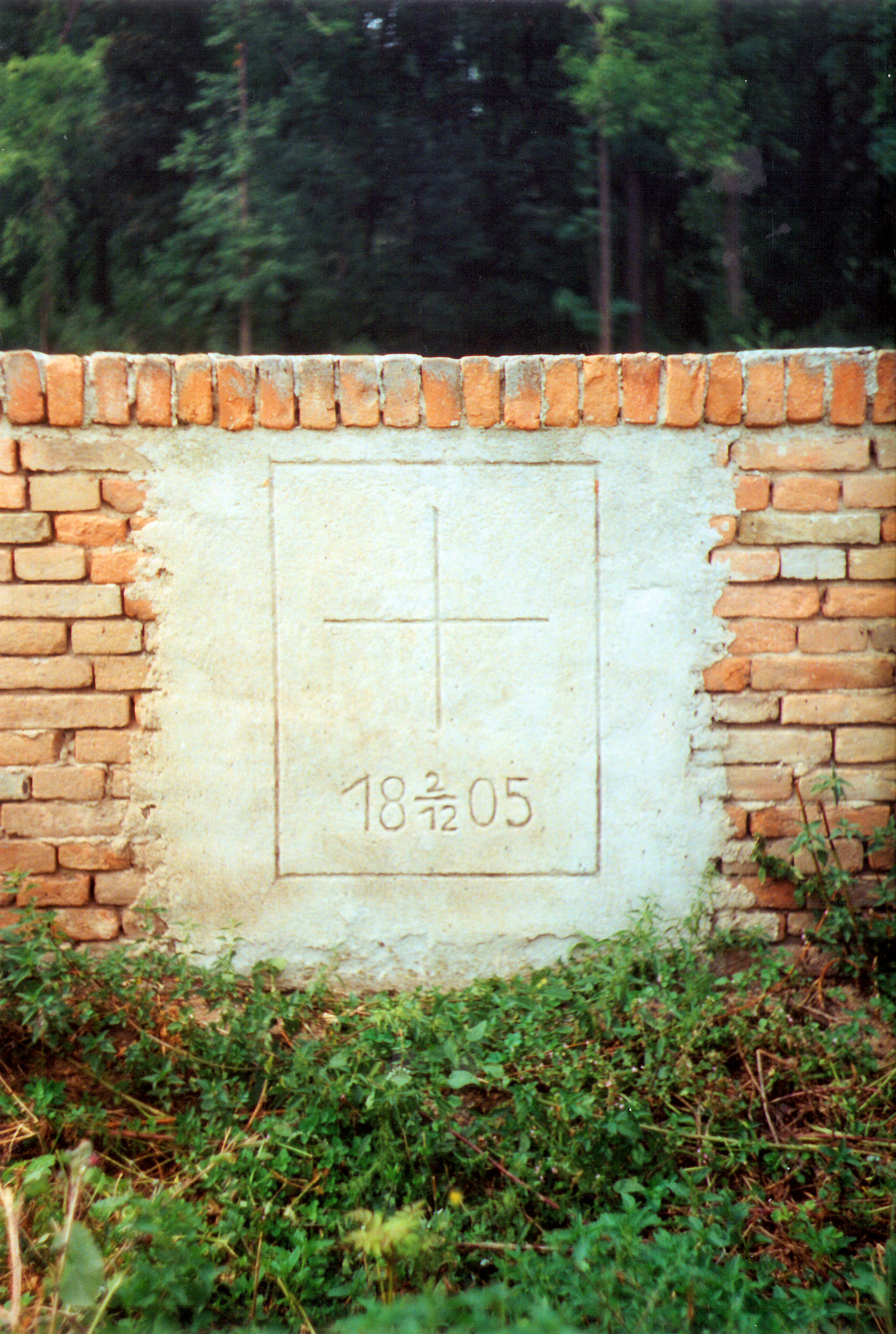 French gun emplacement at the Austerlitz Battlefield, near Sokolnice.